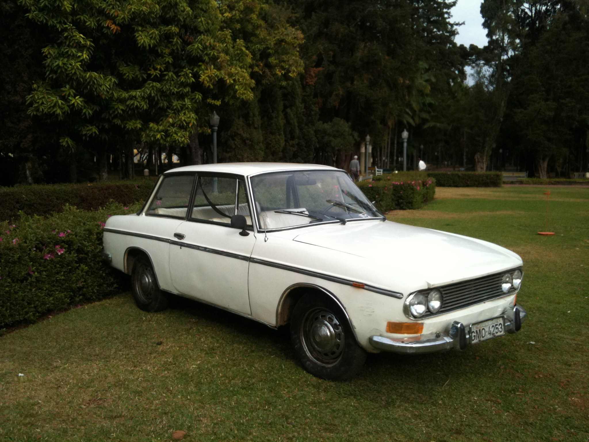 The Brazilian DKW Fissore coupe had Italian design. It was sold from 1964 to 1967.